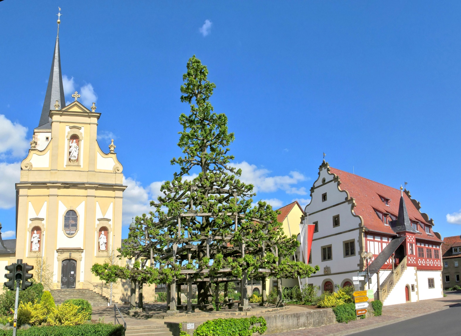 Village Grettstadt: parish curch "St. Peter und Paul", "Dancing Lime" and City Hall